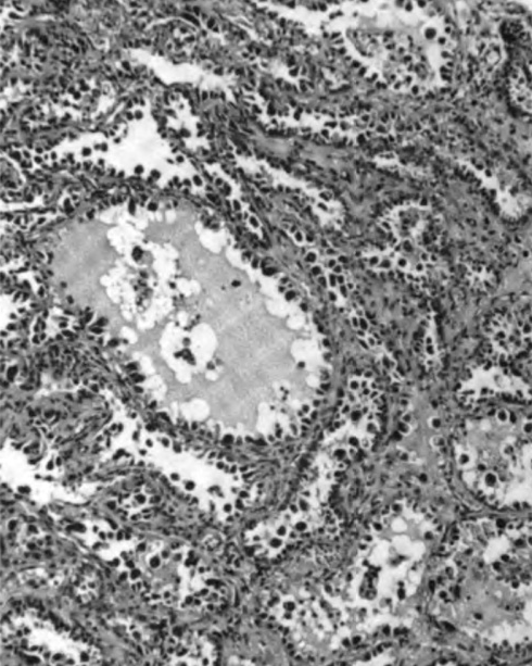 This clear cell carcinoma shows a tubulocystic pattern in which the tubules and cysts are lined with hobnail cells.